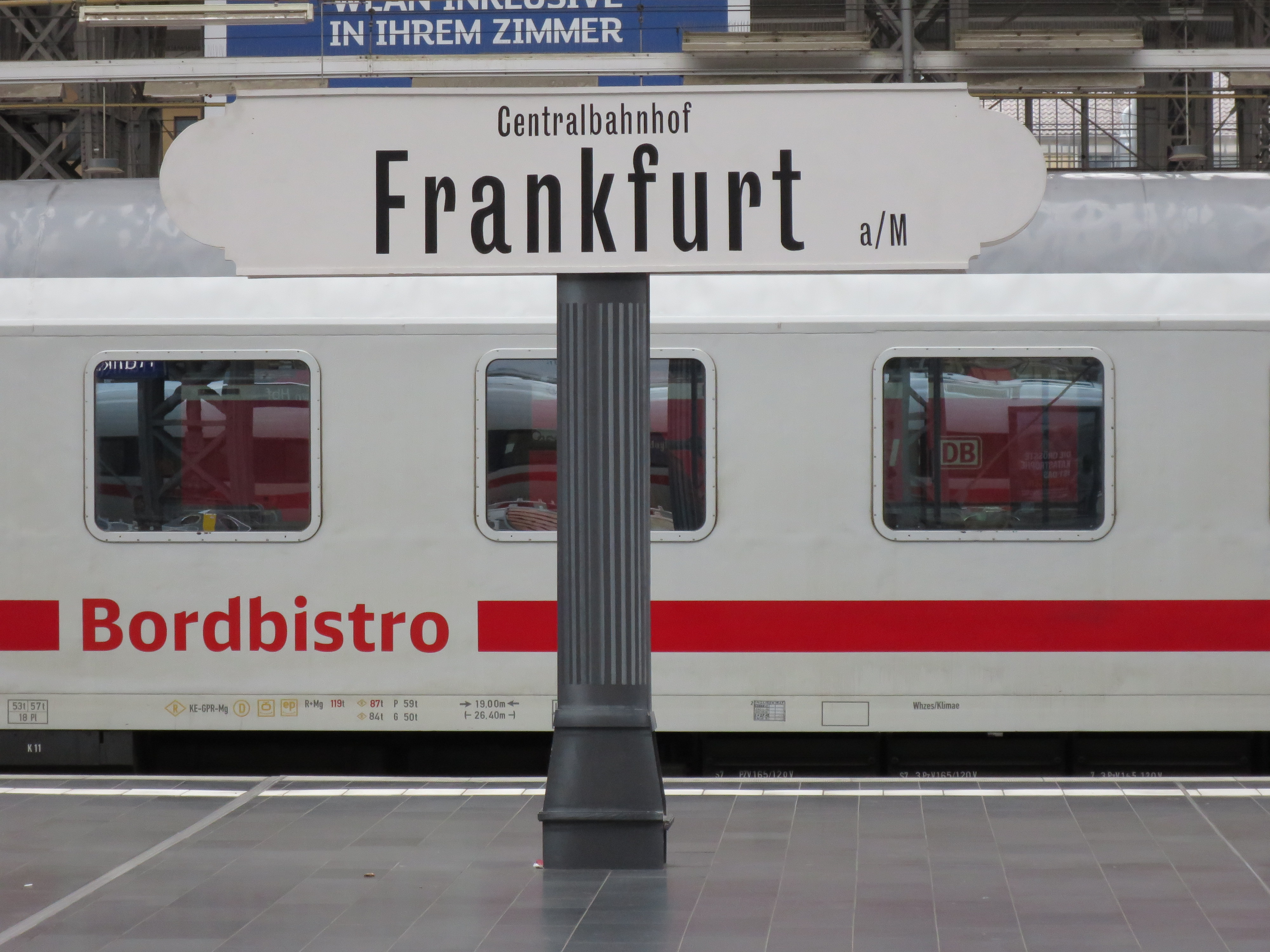 Fake historic platform sign